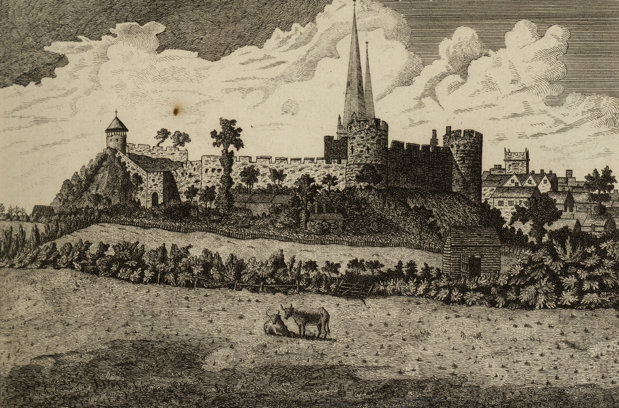 An image from a set of 8 extra-illustrated volumes of A tour in Wales by Thomas Pennant (1726-1798) that chronicle the three journeys he made through Wales between 1773 and 1776. These volumes are unique because they were compiled for Pennant's own library at Downing. This edition was produced in 1781. The volumes include a number of original drawings by Moses Griffiths, Ingleby and other well known artists of the period. Thomas Pennant (1726-1798)